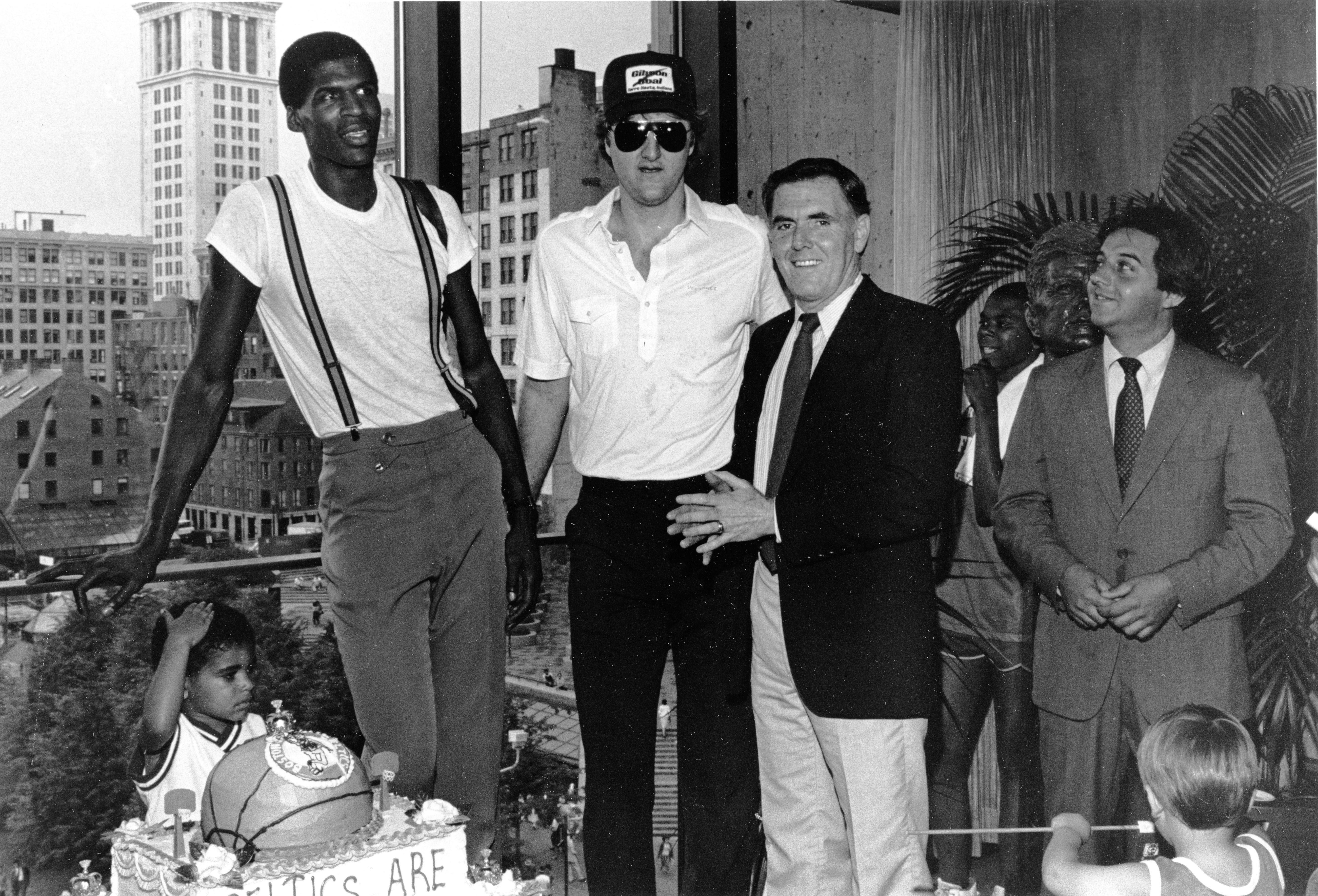 Title: Robert Parish, Larry Bird, Mayor Raymond L. Flynn Creator: Mayor's Office - City Photographer Date: circa 1984 Source: Mayor Raymond L. Flynn records, Collection #0246.001 File name: RF_007 Rights: Copyright City of Boston Citation: Mayor Raymond L. Flynn records, Collection #0246.001, City of Boston Archives, Boston